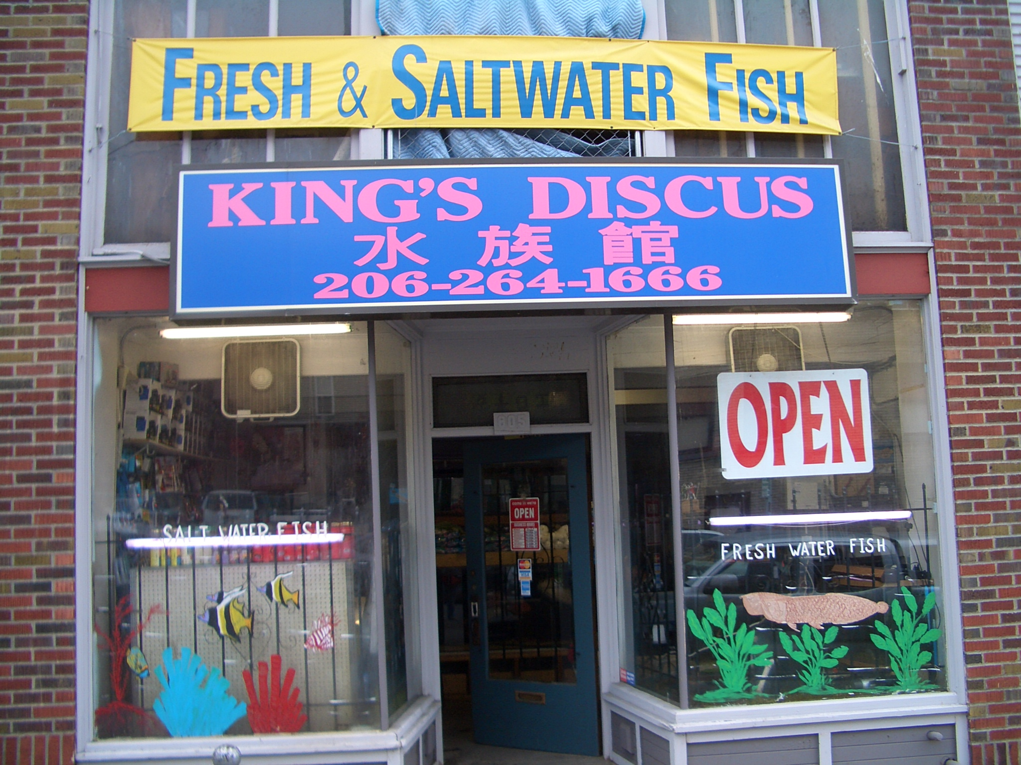 The windows of a small aquarium supply store in Seattle's International District are decorated with pictures of its inhabitants: king's discus (left) and silver arowanas (right)